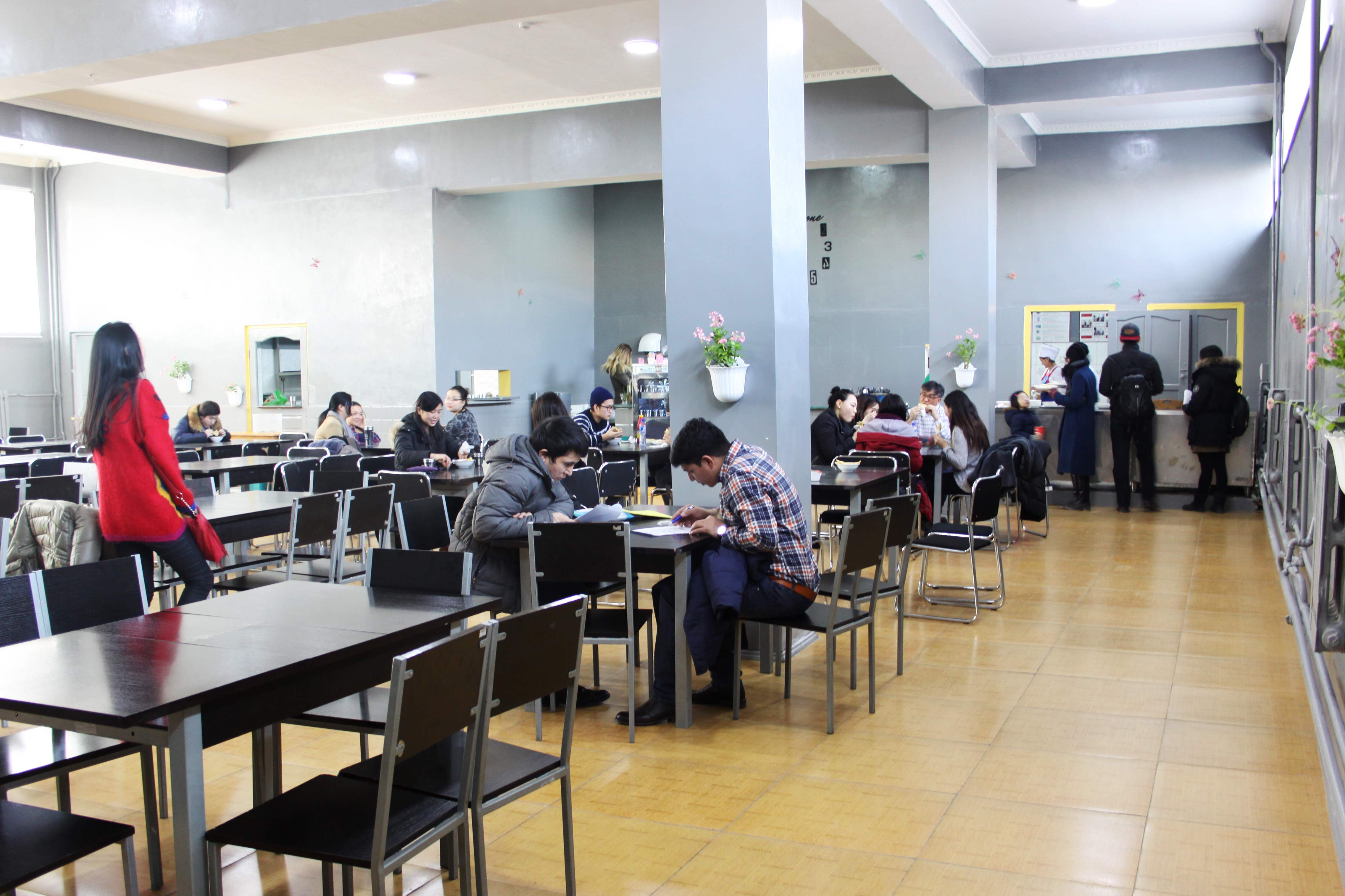 Cafeteria